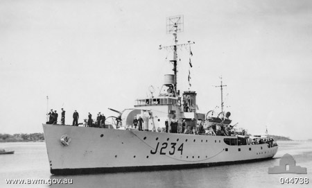 AWM Caption: "BATHURST CLASS MINESWEEPER/CORVETTE HMAS LATROBE. COMMISSIONED ON 6TH NOVEMBER 1942 LATROBE SPENT HER WAR SERVICE CARRYING OUT MINESWEEPING, CONVOY, PRISONER OF WAR EVACUATION AND TROOP CARRYING DUTIES. AFTER THE WAR SHE WAS BASED AT WESTERNPORT, VICTORIA AS A TRAINING SHIP. ON 18TH MAY 1956 LATROBE WAS SOLD AS SCRAP TO HONG KONG ROLLING MILLS LTD. LATROBE WAS ONE OF ONLY TWO RAN SHIPS LAUNCHED BY A MAN".